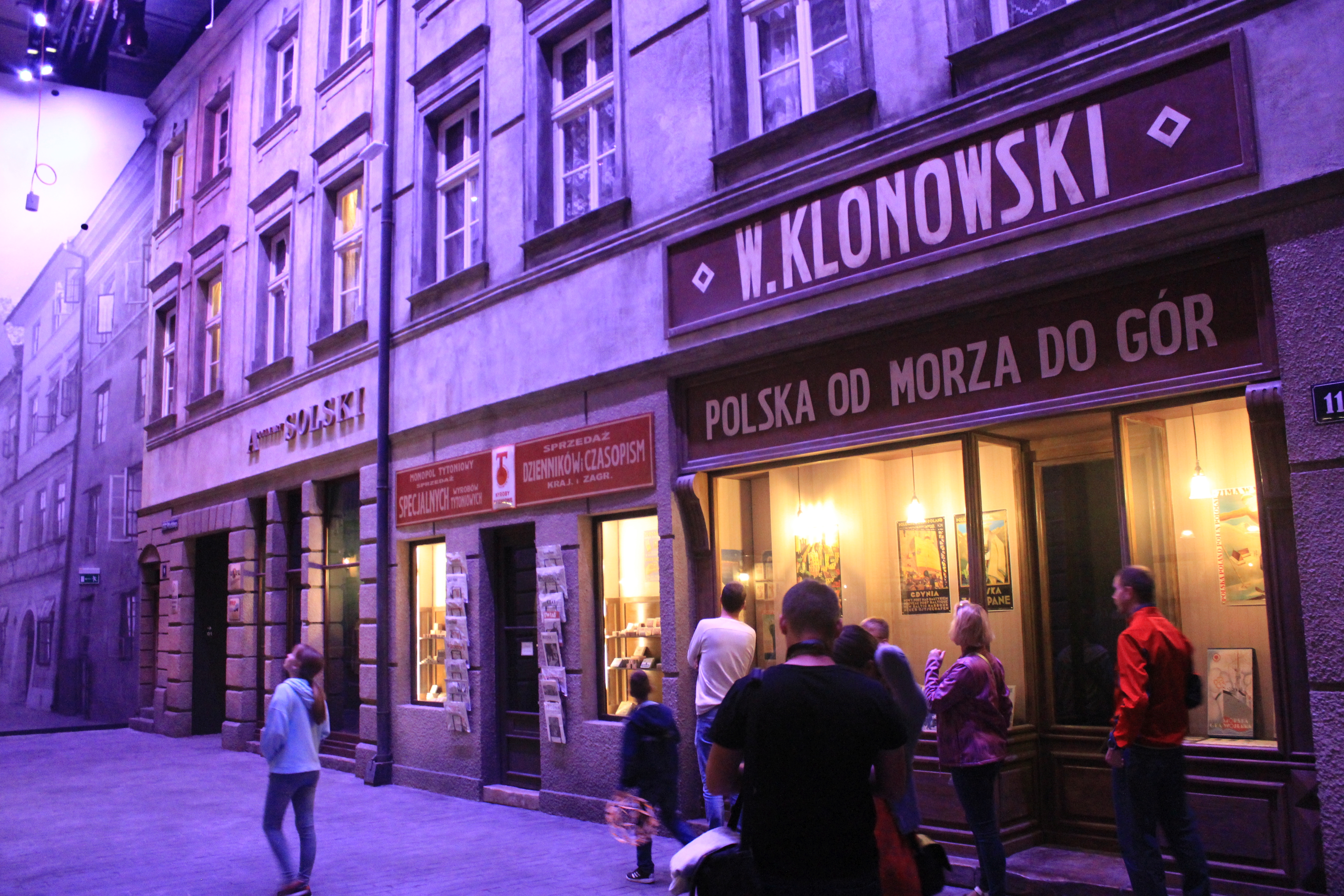 Gdańsk - Museum of the Second World War